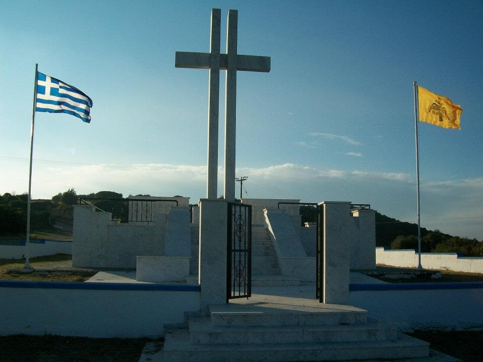 The main memorial of the massacre of the Axis Forces on WWII at Ano Kerdyllia and Kato Kerdyllia, Serres, Central Macedonia.(17-10-1941)